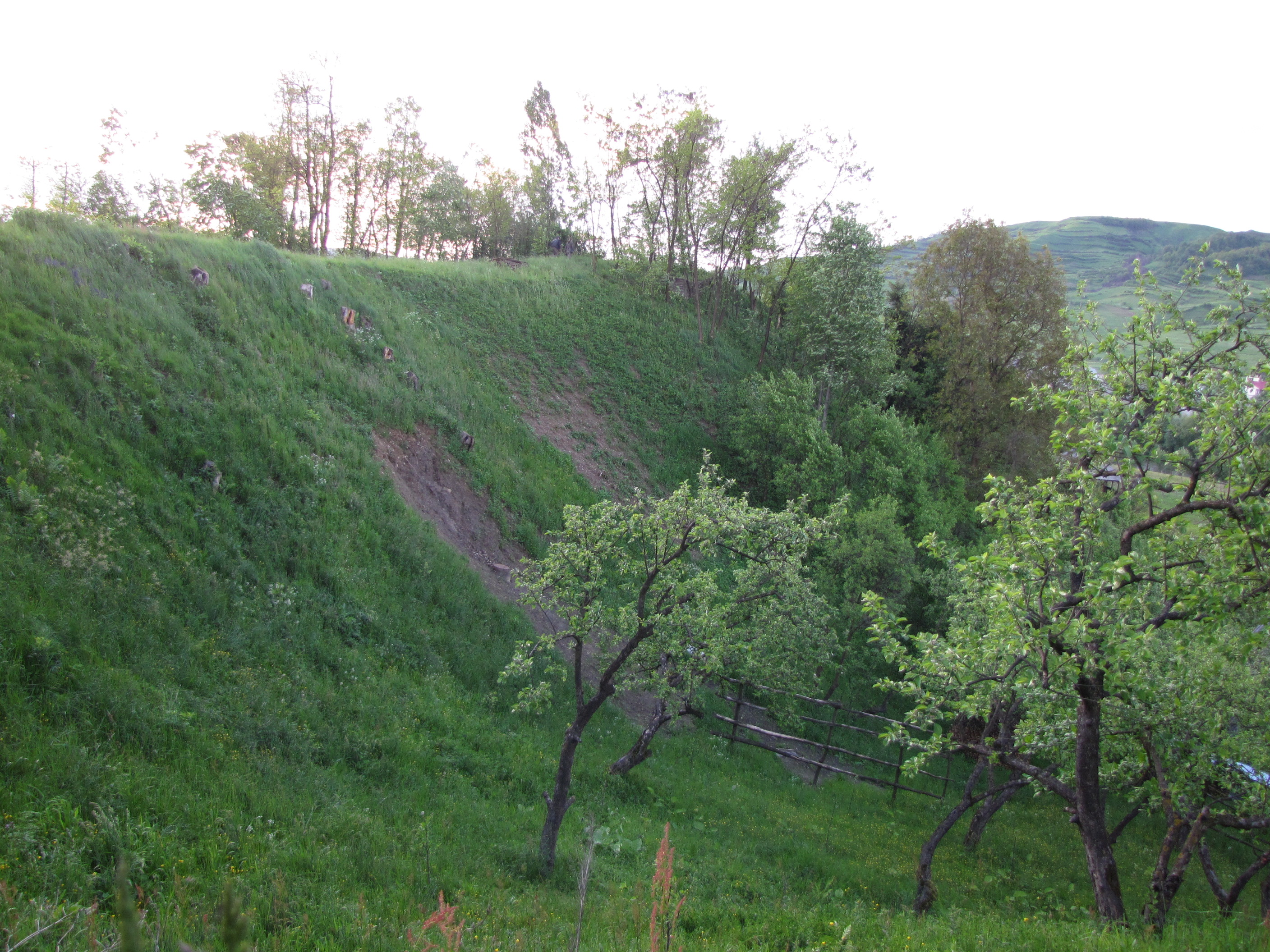 The hill on the left bank of Iza river where the residence of Prince Bogdan stood in Middle Ages.